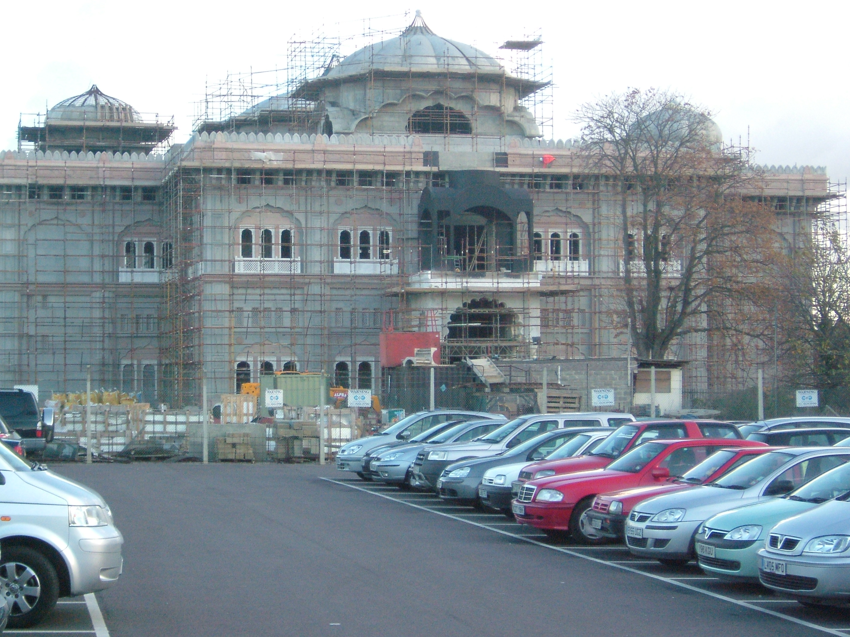 Gravesend is in North Kent, England on the River Thames. The Gravesend Gurudwara is under constructiion.